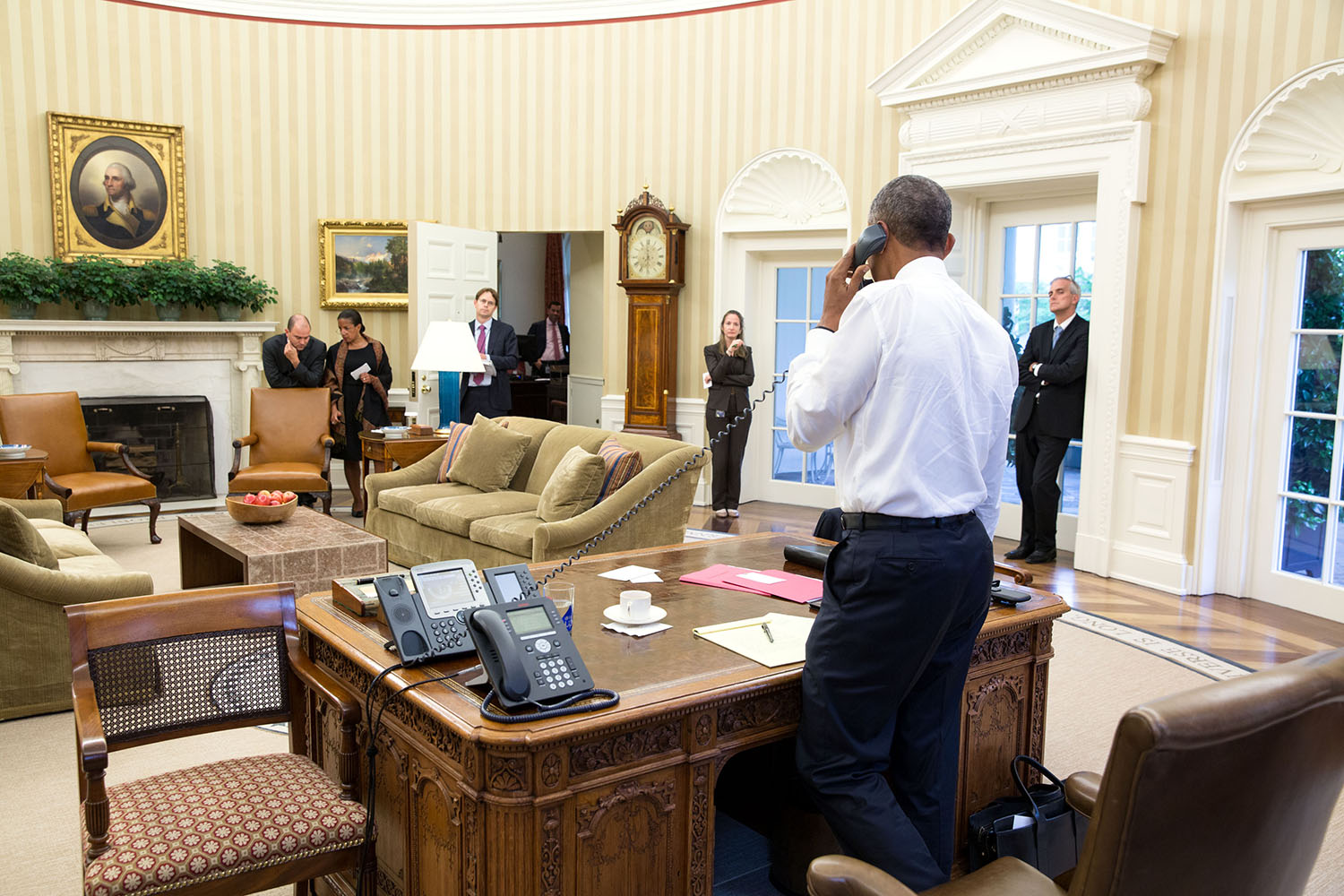 President Barack Obama talks on the phone with Secretary of State John Kerry regarding the Iran nuclear agreement in the Oval Office, July 13, 2015. Attending from left: Ben Rhodes, Deputy National Security Advisor for Strategic Communications, National Security Advisor Susan E. Rice, Jeffrey Prescott, Senior Director for Iran, Iraq, Syria, and the Gulf States, Avril Haines, Deputy National Security Advisor Counterterrorism and Chief of Staff Denis McDonough. (Official White House Photo by Pete Souza.)